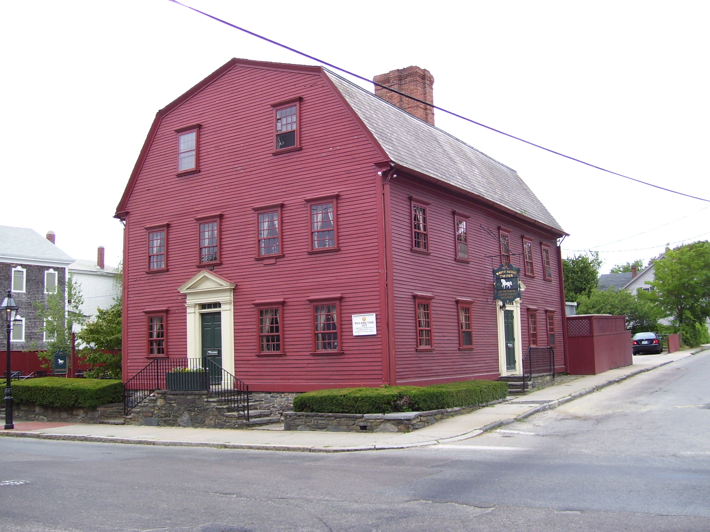 My 2009 photo of the White Horse Tavern in Newport, Rhode Island.